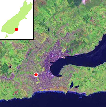 Map showing location of Caversham, Dunedin, New Zealand. Based on NASA satellite map